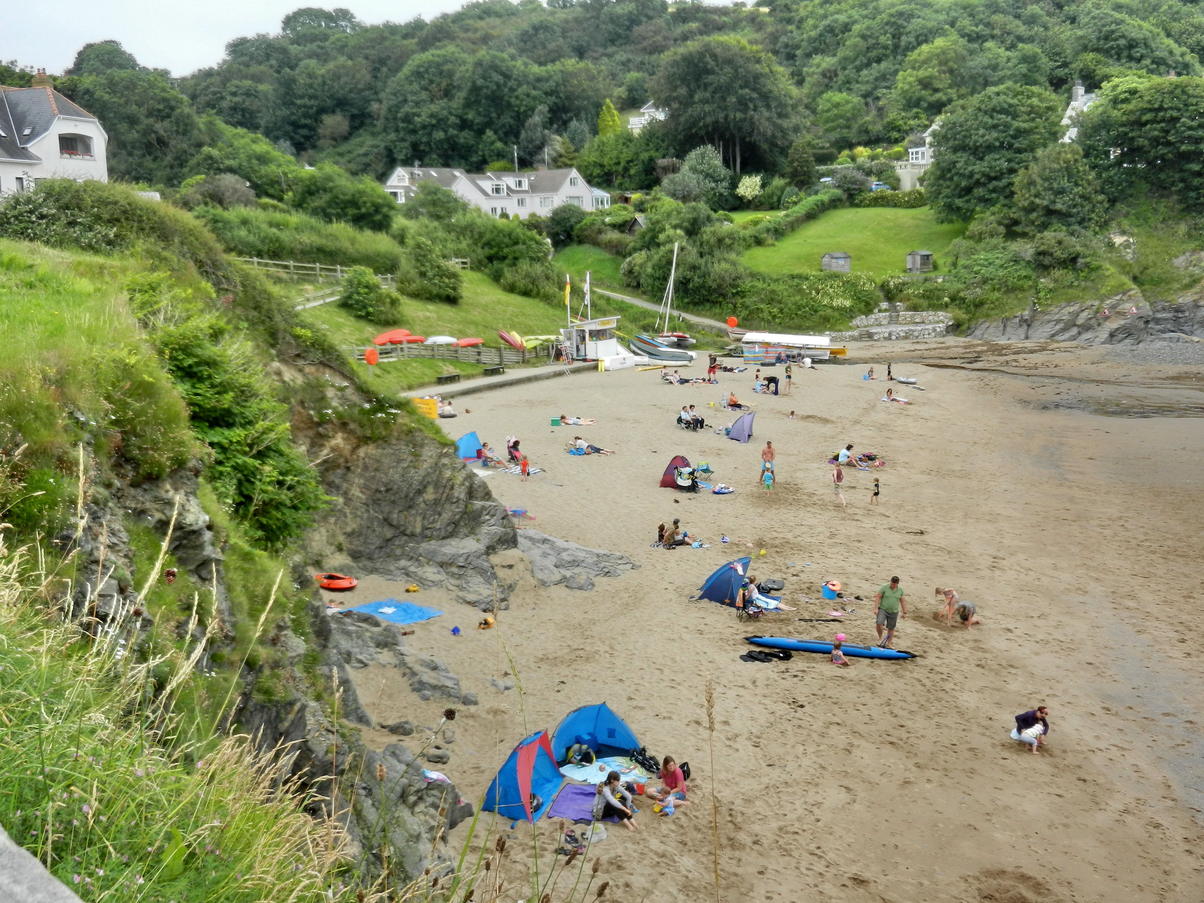 Aberporth